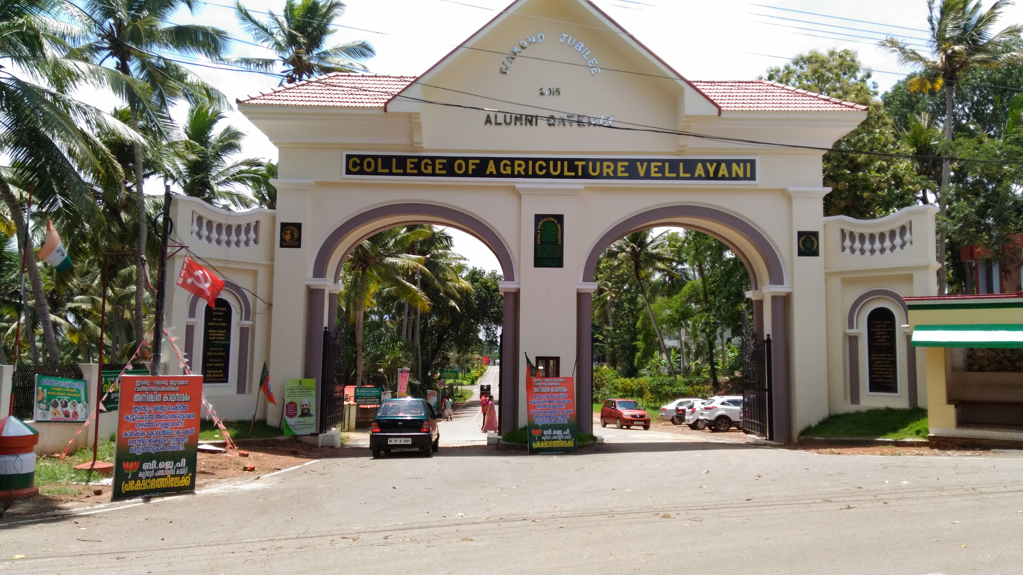 College of Agriculture, Vellayani